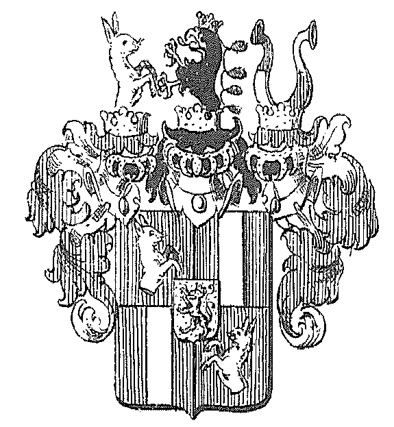 Coat of Arms of canonry Franz Ferdinand Oedt